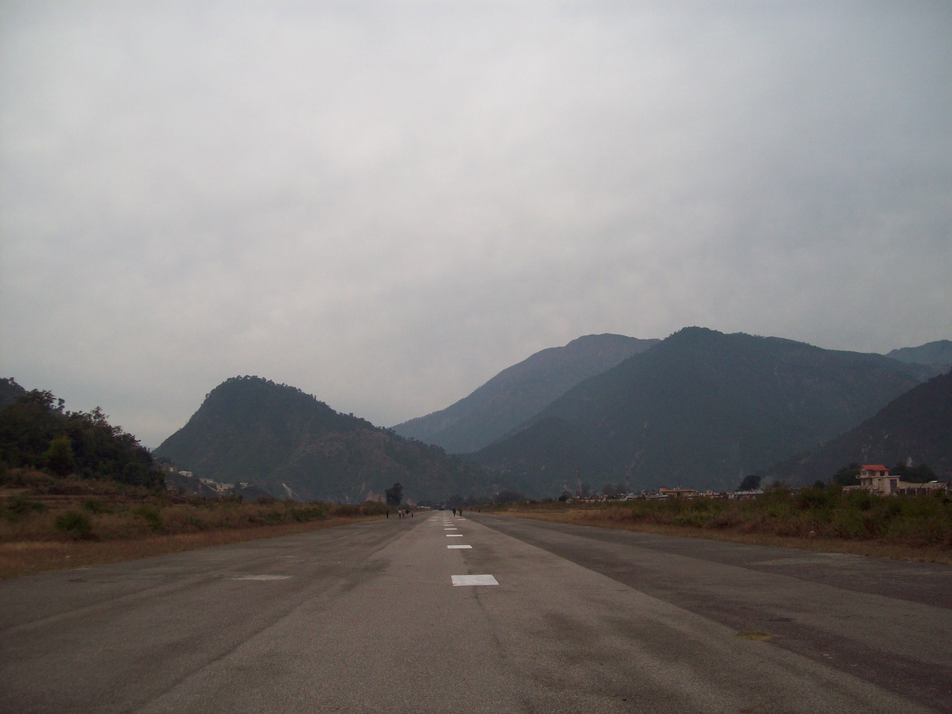 Gaurchar Airport - Chamoli Uttarakhand